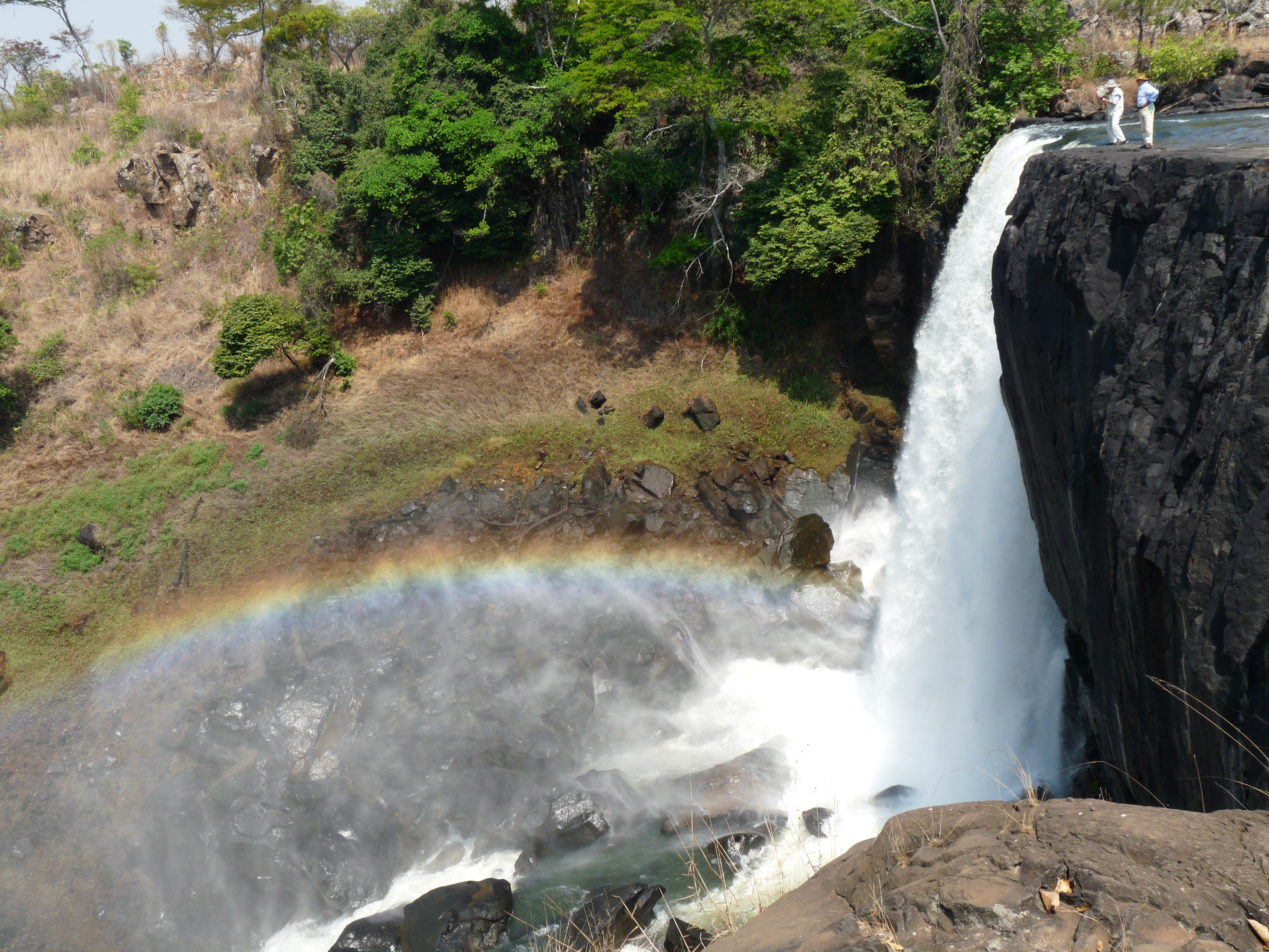 Dietrich Kracht, Chimshiba Falls, Zambia